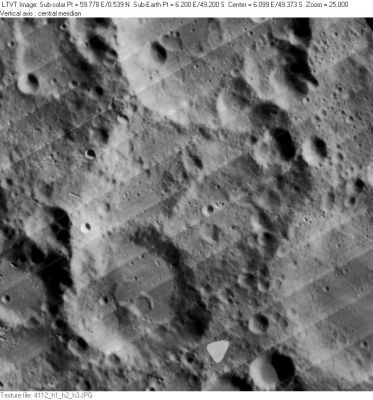 LO-IV-112H Heraclitus is in the center. Above it is the southern half of 74-km Licetus. In the southwest, Heraclitus is overlain by 52-km Heraclitus D, and partially visible in the lower right is 75-km Cuvier